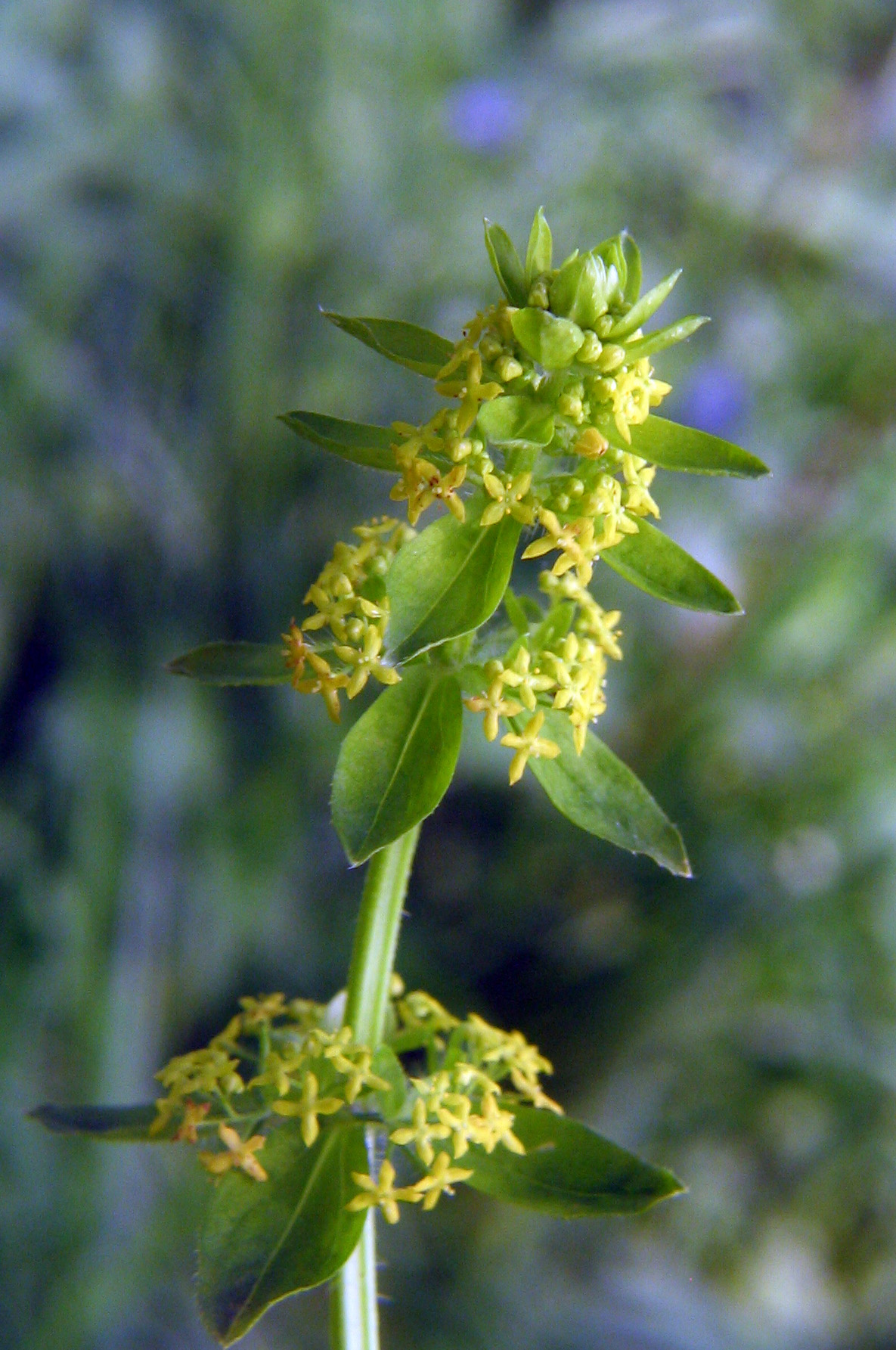 Cruciata sp. (I suppose C. glabra vel C. laevipes) It is a good practice to write where a photo was taken (sometimes it helps to identify) --Michau Sm 15:29, 30 June 2006 (UTC) Photographer is based in Romania # MPF 00:45, 15 August 2006 (UTC) I am almost sure this is cruciata glabra because cruciata glabra has no hair contrary to cruciata laevipes, --Barracuda1983 13 August 2009. This is C. laevipes. The hairiness character applies to the pedicels, not the whole plant. The presence of bracts among each group of flowers also makes this C. laevipes, not C. glabra. --Stemonitis (talk) 19:19, 27 January 2016 (UTC)